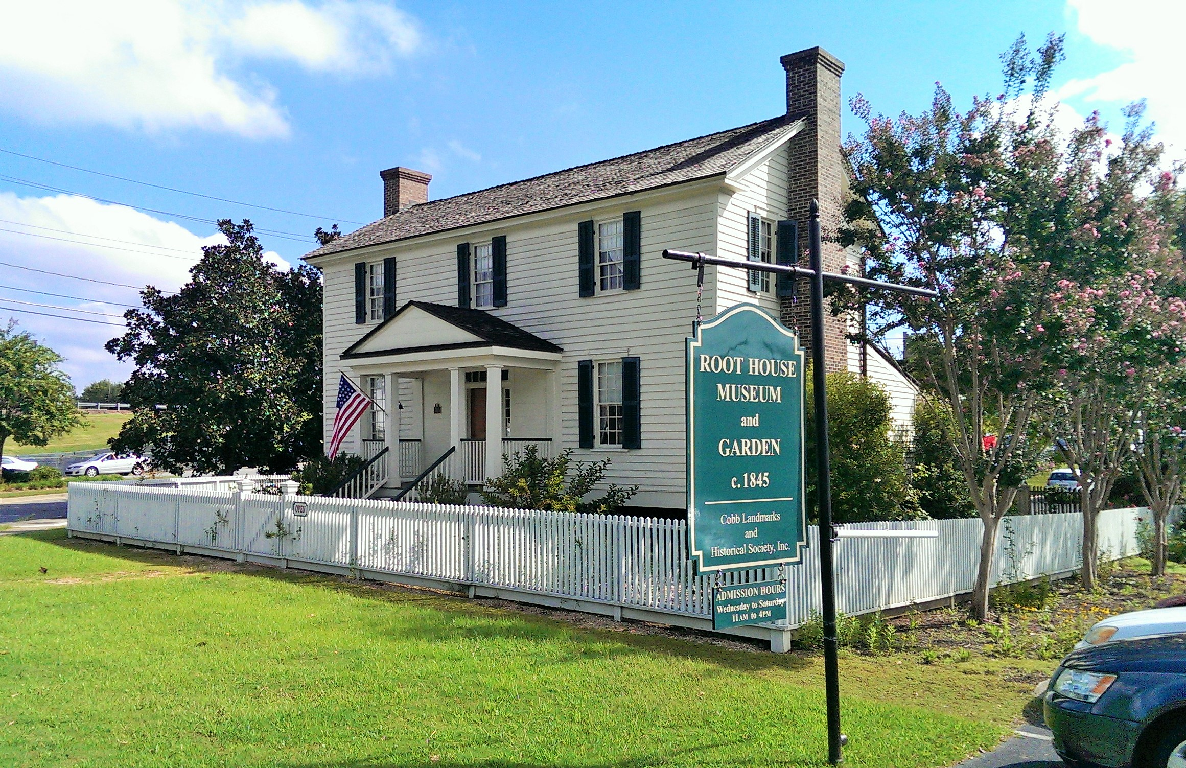 William and Hannah Root House, 145 Denmead St., NW. Marietta